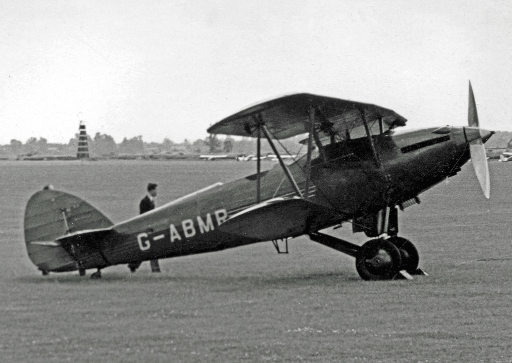 Hawker Hart G-ABMR of Hawker Aircraft at Coventry Baginton in 1954